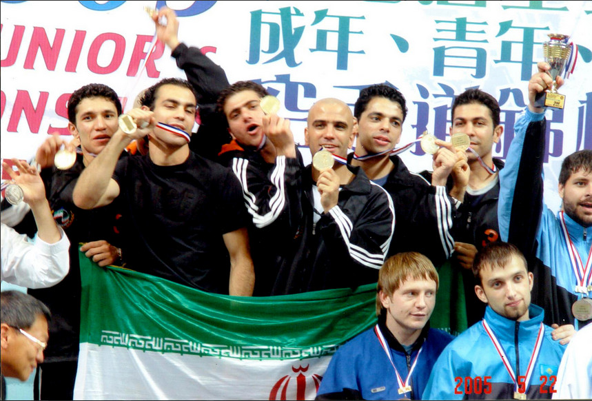 majid abdolhosseini